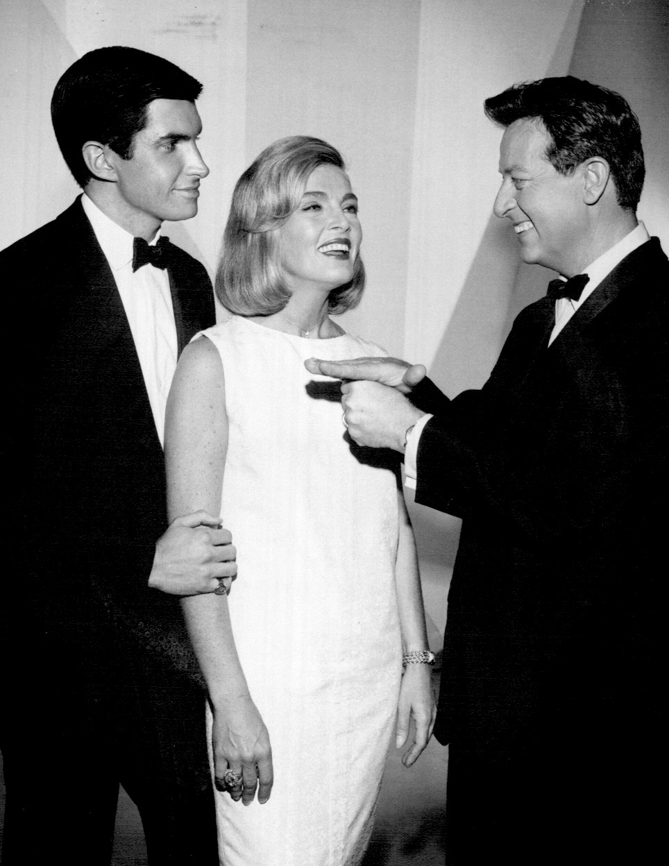 Photo of George Hamilton and Lizabeth Scott with host Mike Stokey from the television game show Stump the Stars.